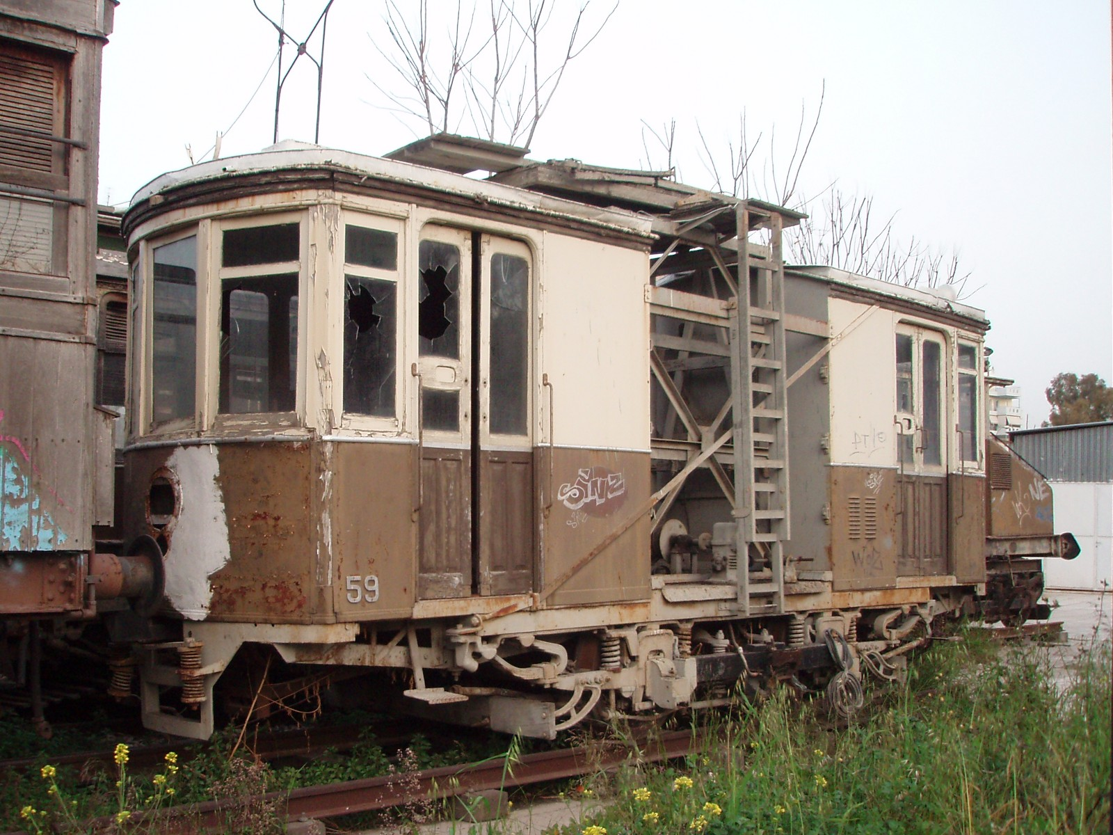 Overhead line maintenance railcar ΕΗΣ 59 of the Piraeus Harbour Tramway, in storage outside Athens Railway Museum.